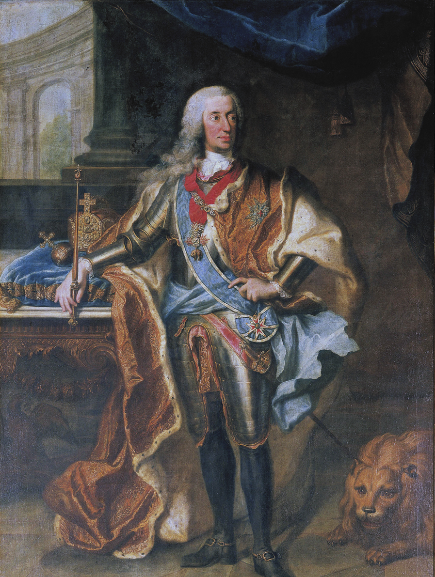 Carl Albrecht as emperor after 1745 inscribed b.l.: Kaiser Carl Albrecht VII. / † 1745